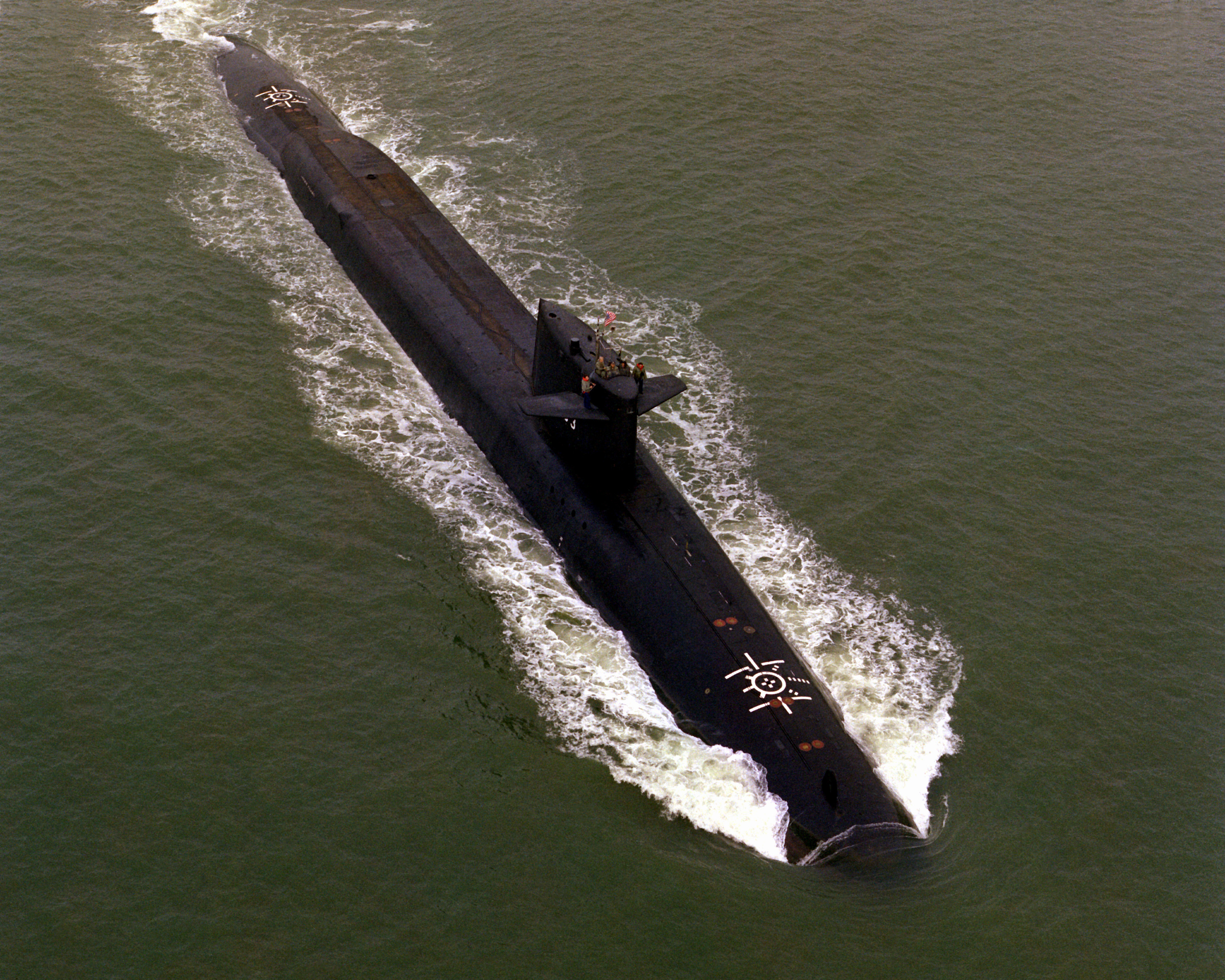 An aerial starboard bow view of the nuclear-powered strategic missile submarine USS CASIMIR PULASKI (SSBN-633) underway.